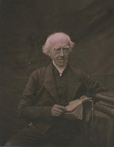 John Lee